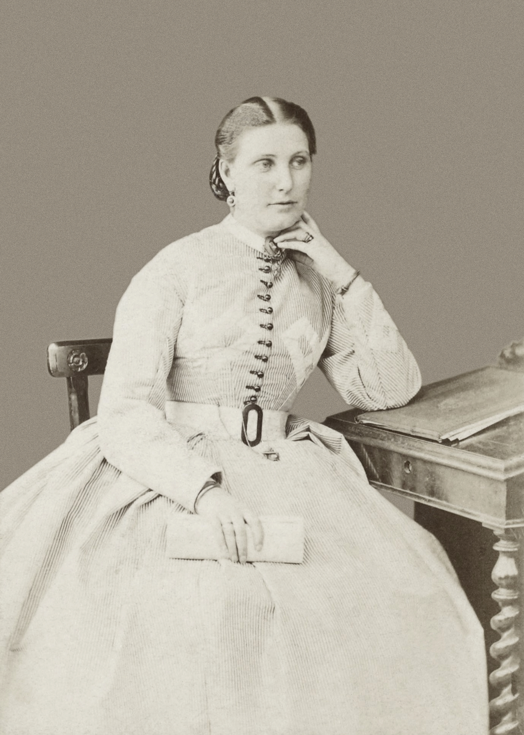 Lady Florence Baker (1841 - 1916), Explorer of Africa with Sir Samuel White Baker